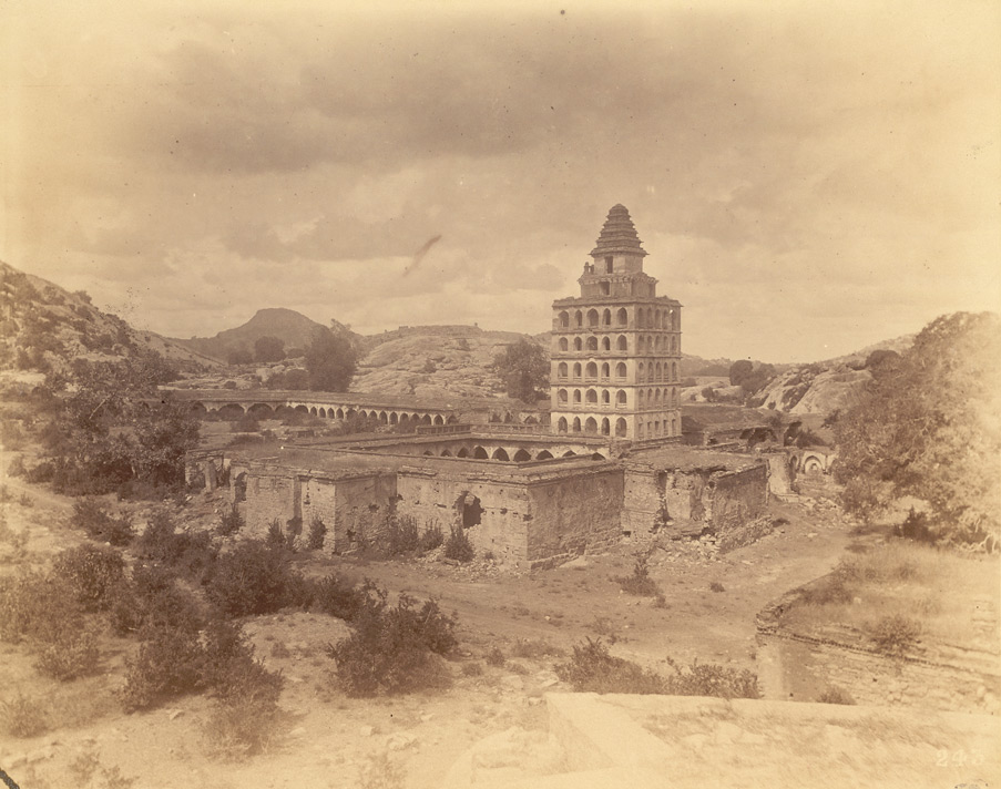 General view of the Kalyana Mahal, Gingi [Gingee], South Arcot District